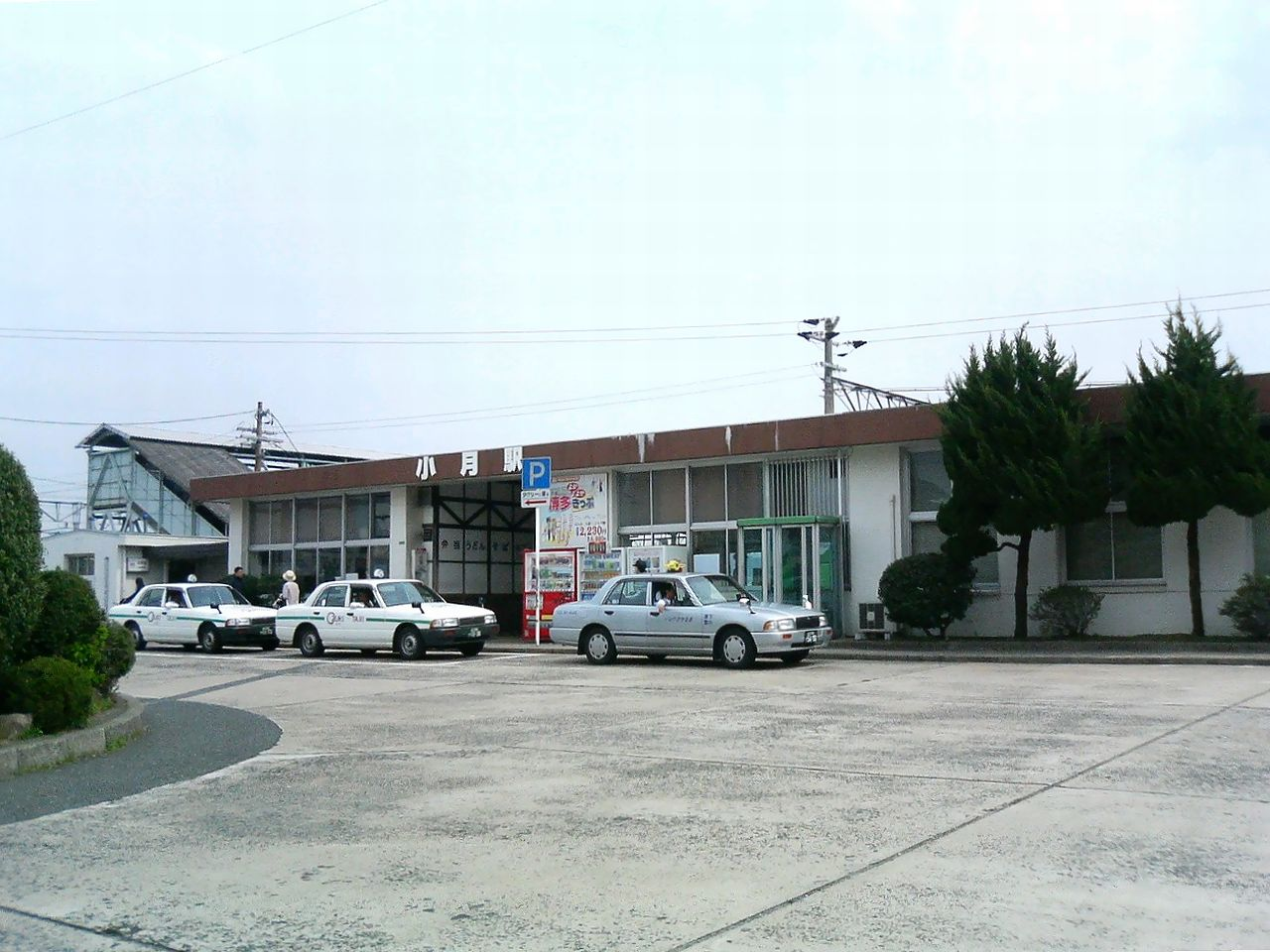 West Japan Railway Company Ozuki Station